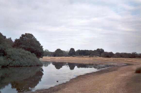 Lake Alexandra, a part of Wanstead Flats, the southern-most portion of Epping Forest in eastern London.